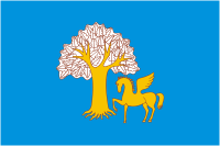 Flag of Kiginsky Municipal District, Republic of Bashkortostan.